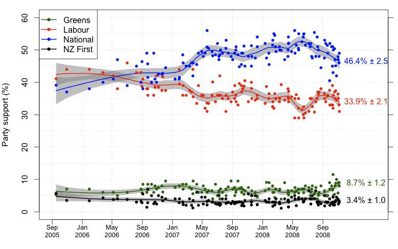 Graph showing support for political parties in New Zealand since the 2005 election, according to various political polls. Data is obtained from the Wikipedia page, Opinion_polling_for_the_New_Zealand_general_election,_2008